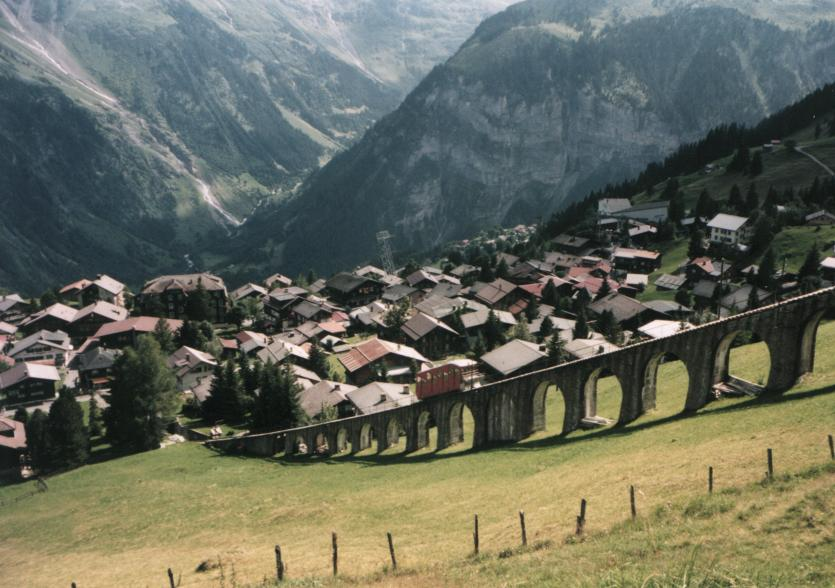 View of Mürren and the Allmendhubelbahn.